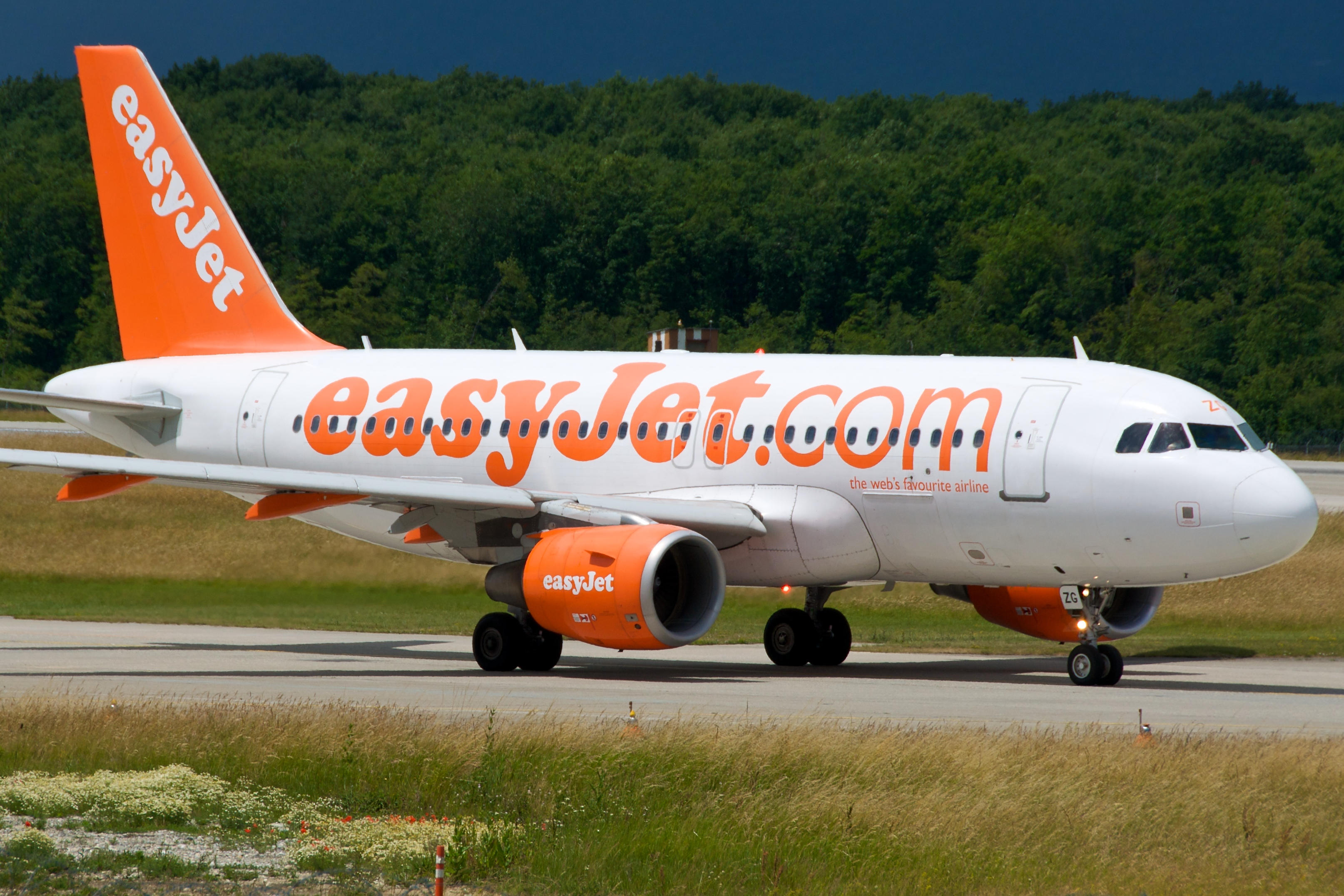 EasyJet A319 HB-JZG in Geneva International Airport.